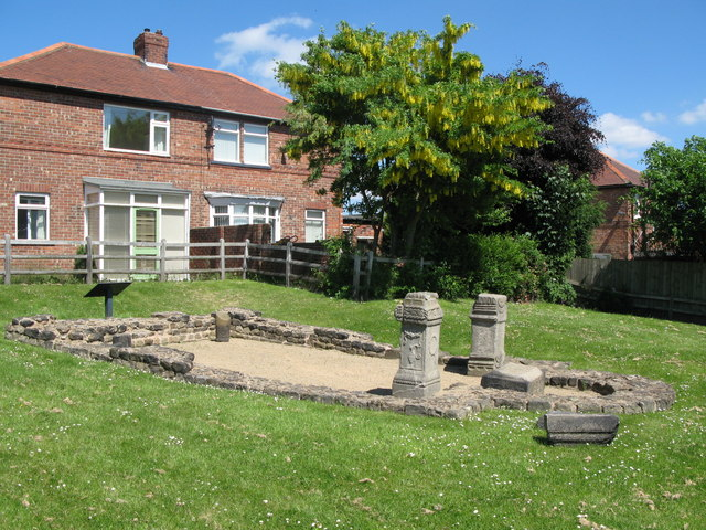 (Roman) Temple of Antenociticus